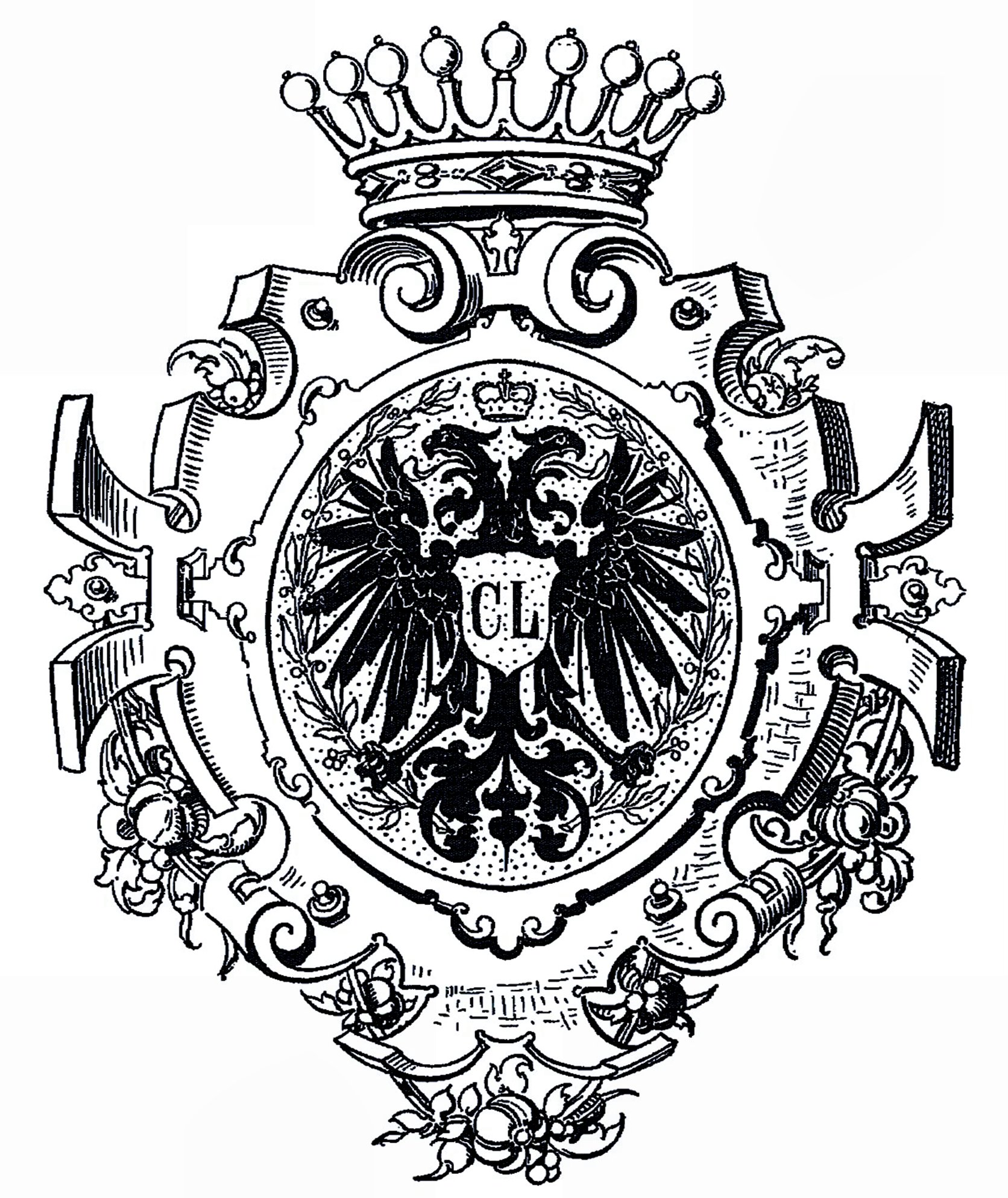 Arms of Count Wladimir Logothetti (1822-1892) as depicted in the Mährisches Wappenbuch, offered in 1888 to Emperor Franz-Joseph I.